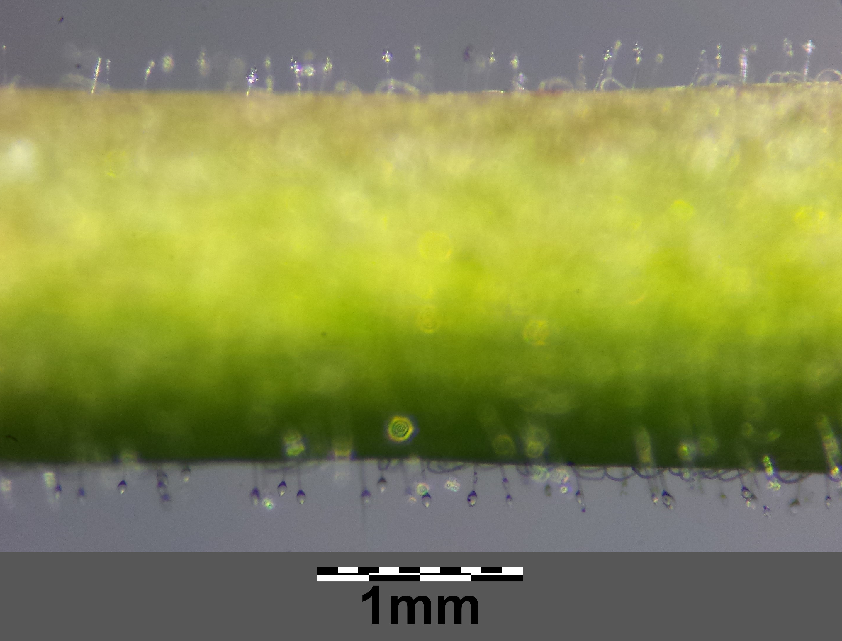 Stipe with gland hairs Taxonym: Epilobium ciliatum ss Fischer et al. EfÖLS 2008 ISBN 978-3-85474-187-9 Location: near Arbesbach, Groß-Gerungs, district Zwettl, Lower Austria - ca. 850 m a.s.l. Habitat: brookside